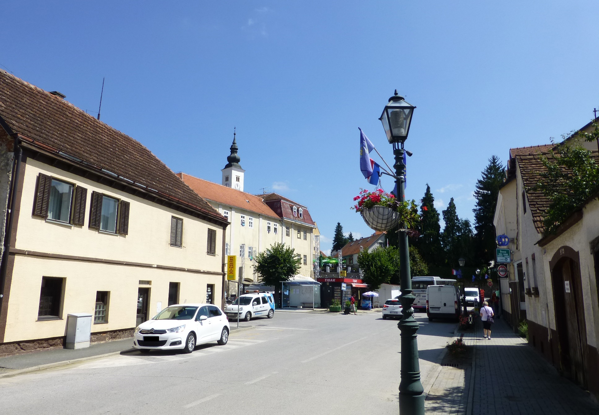 Varaždinske Toplice towards St Mary church